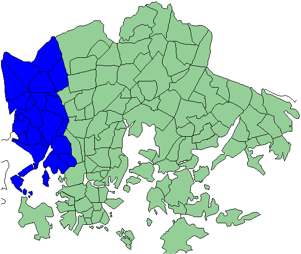 Districts of Helsinki, Läntinen suurpiiri highlighted - i.e. Western Major District of Helsinki (Major District 2; there are total 7 major districts in Helsinki)